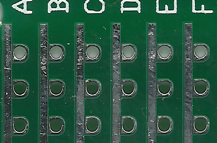 Closeup of a corner of a Perf+ prototyping board